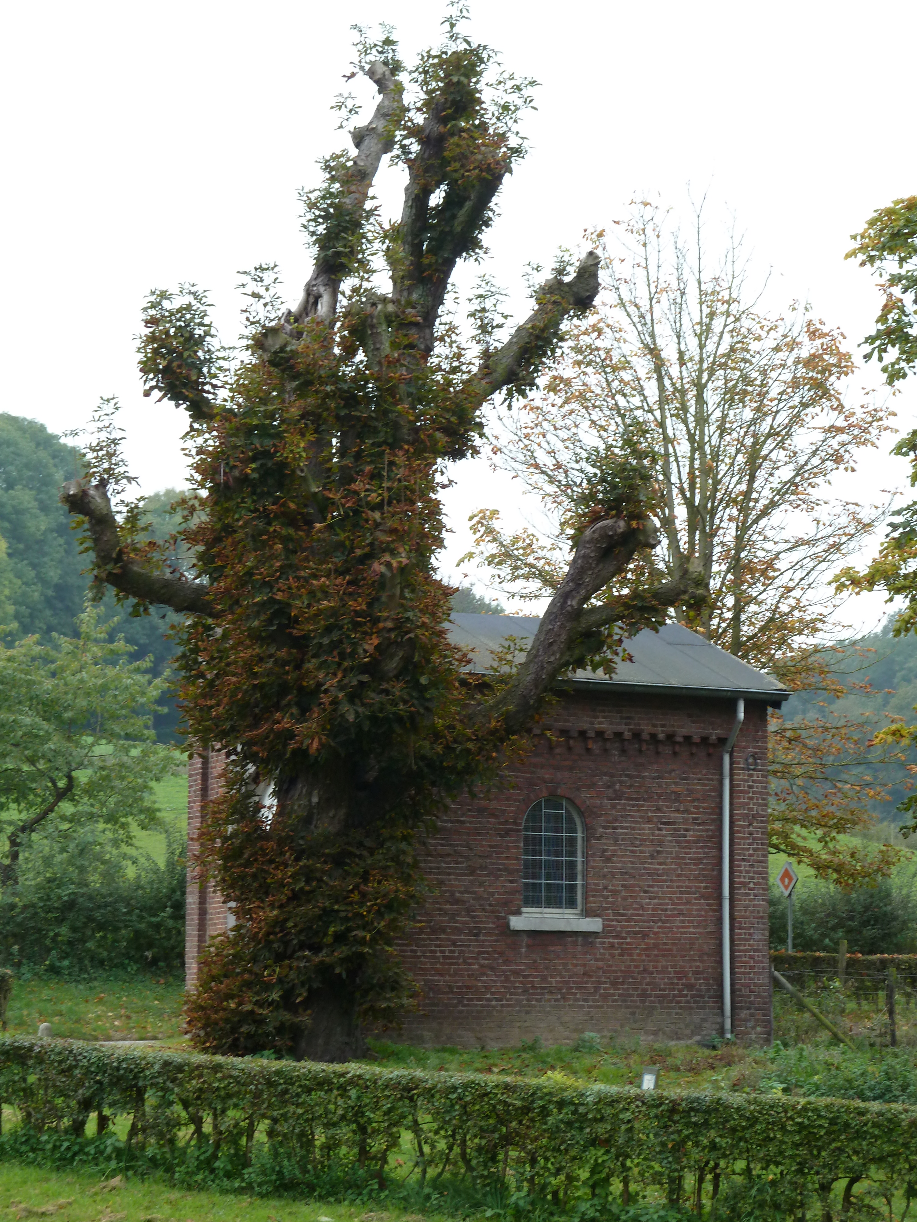 Mariakapel, Slenaken, Limburg, the Netherlands